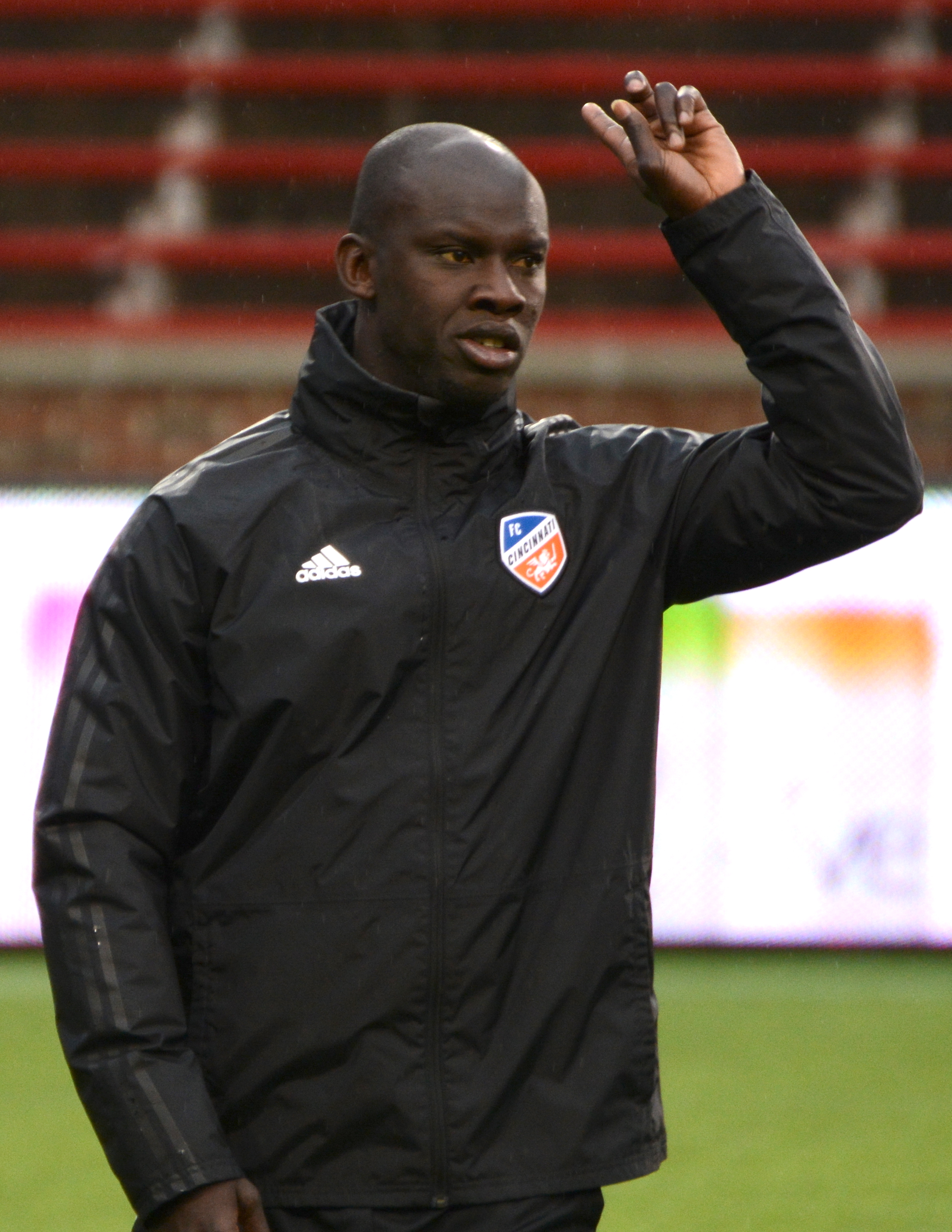 Taken during practice before a Major League Soccer regular season match between FC Cincinnati and Real Salt Lake at Nippert Stadium in Cincinnati, USA on April 19, 2019